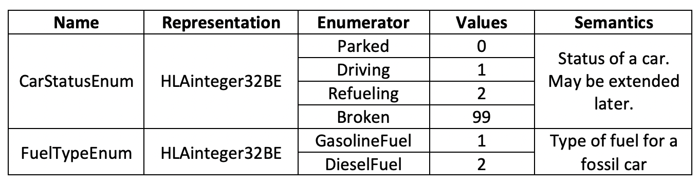 Sample HLA enumerated datatype table according to IEEE 1516-2010